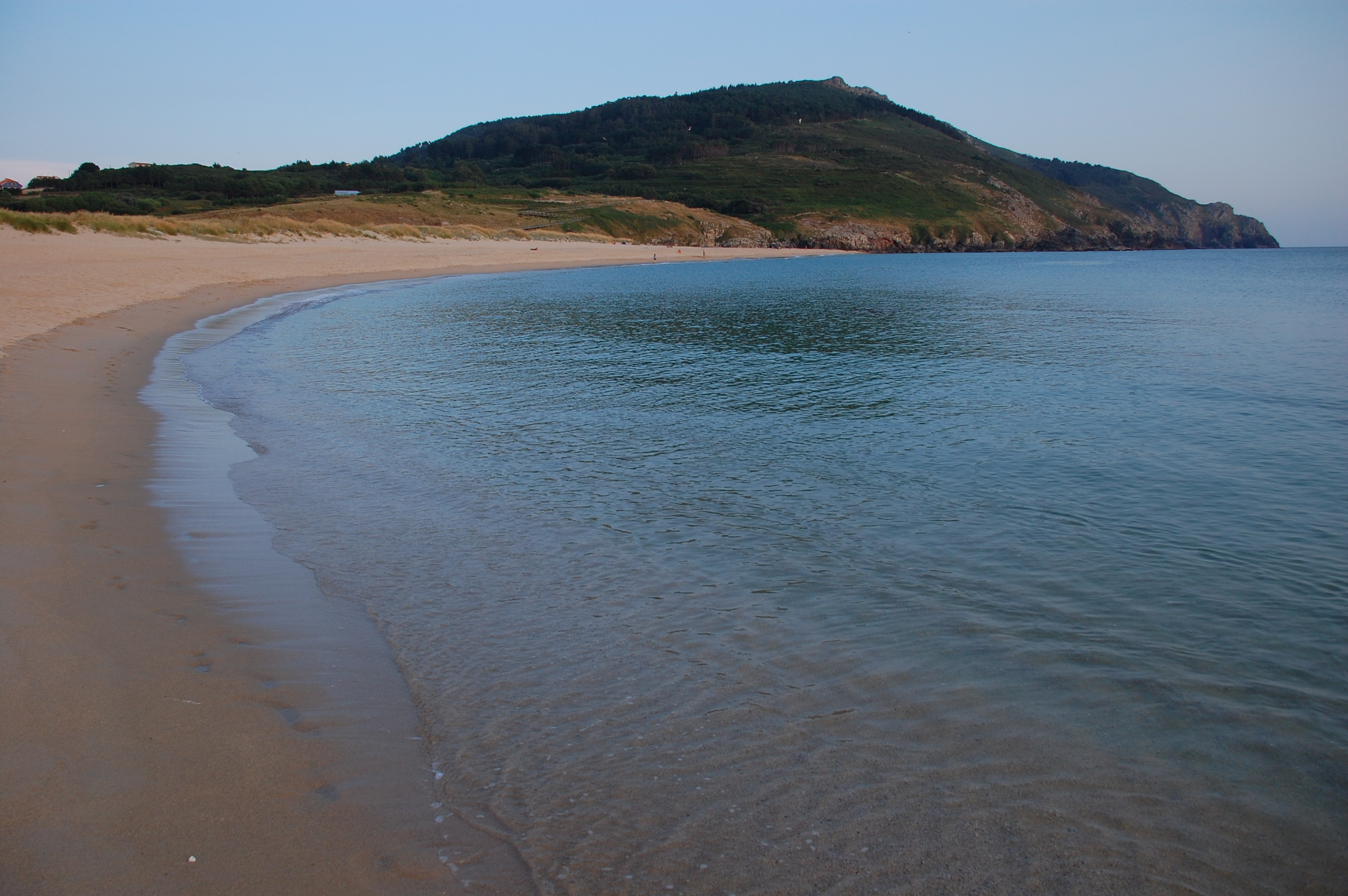 This is a photography of a Special Area of Conservation in Spain with the ID: ES1110005. Natura2000 entry, EEA entry